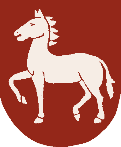 flag of Courlevon, comunity in the canton of Fribourg, Switzerland